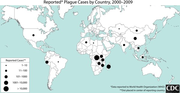 World map of plague cases reported to World Health Organization (WHO), 2000-2009.